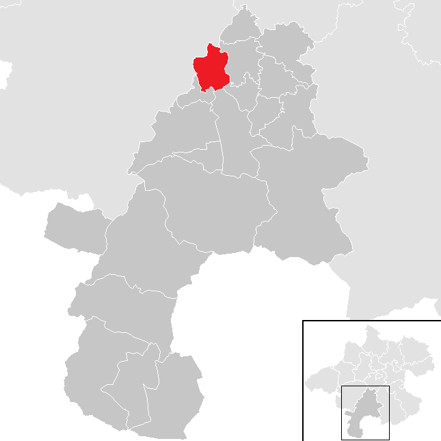 district Gmunden, location of Ohlsdorf highlighted